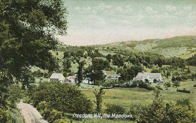 The Meadows, Freedom, NH; from a c. 1910 postcard.